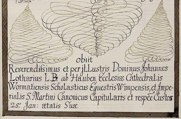 Überlieferte Epitaphinschrift des Wormser Domherren Johann Lothar von der Hauben (+ 1723); aus der Johanneskirche Worms